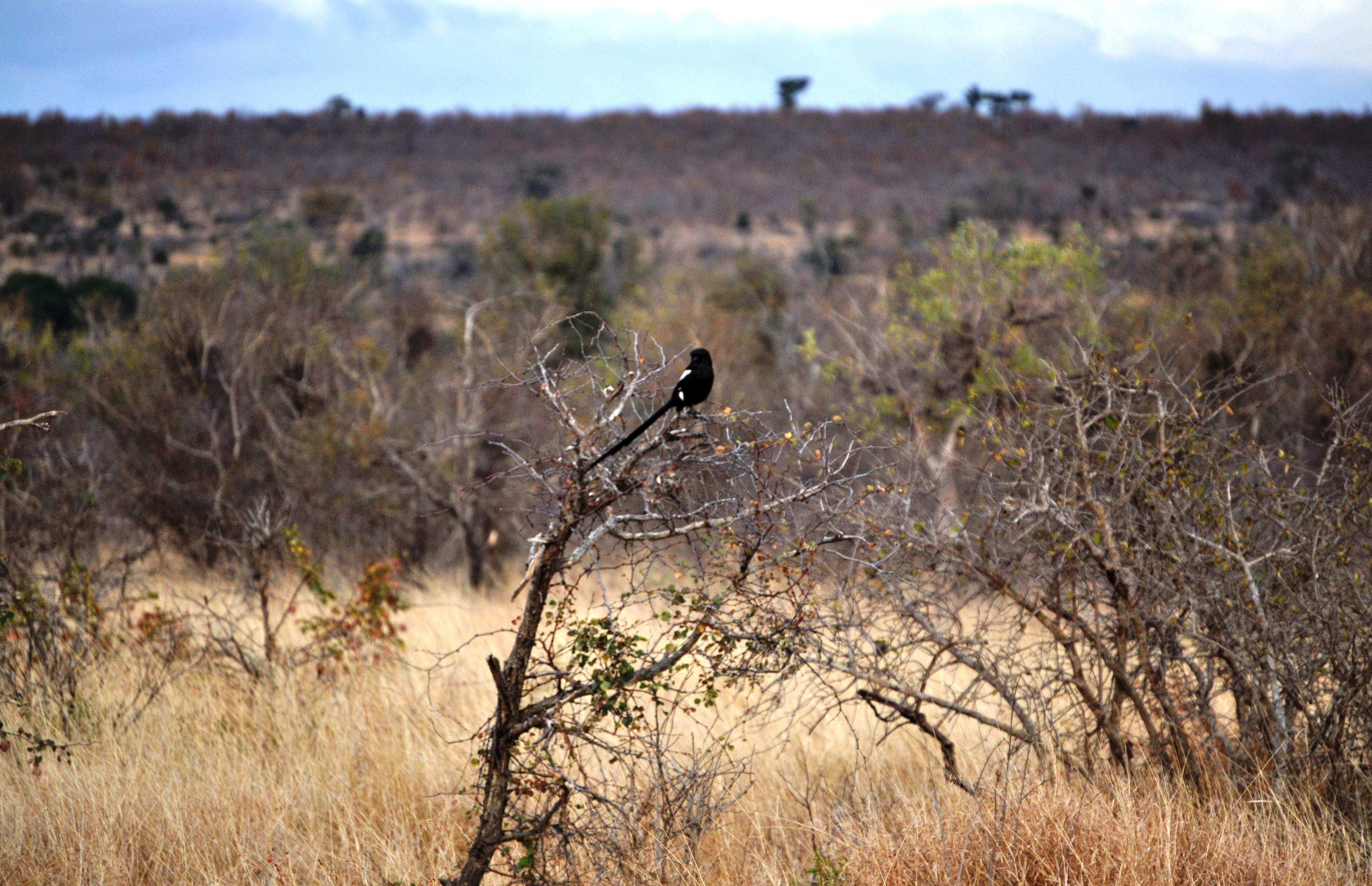 Magpie shrike on perch in the southern Kruger Park, South Africa